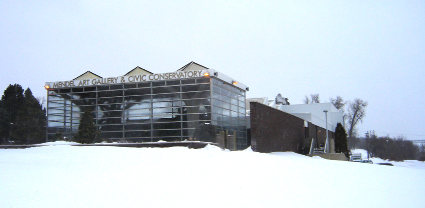 Wikipedia:Mendel Art Gallery and Civic Conservatory, City Park , Core Neighbourhoods SDA, Saskatoon, Saskatchewan, Canada